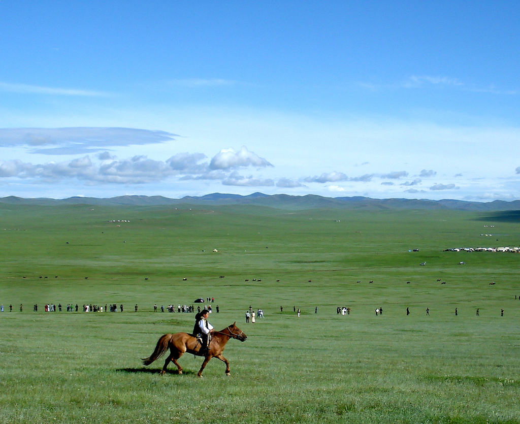 horse race in the Mongolian steppes.